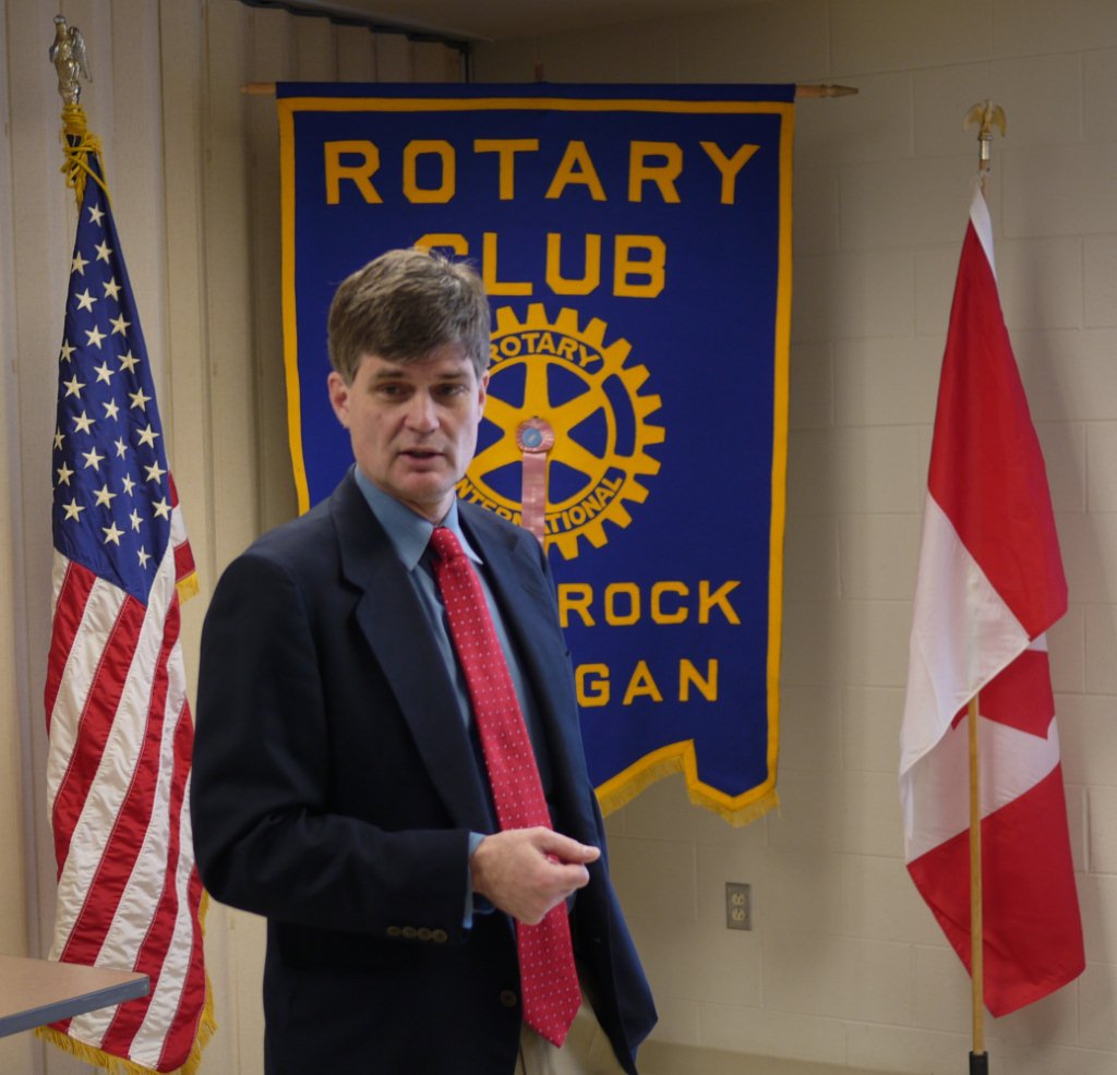 Michigan politician Rob Steele addressing the Rotary Club of Flat Rock, Michigan